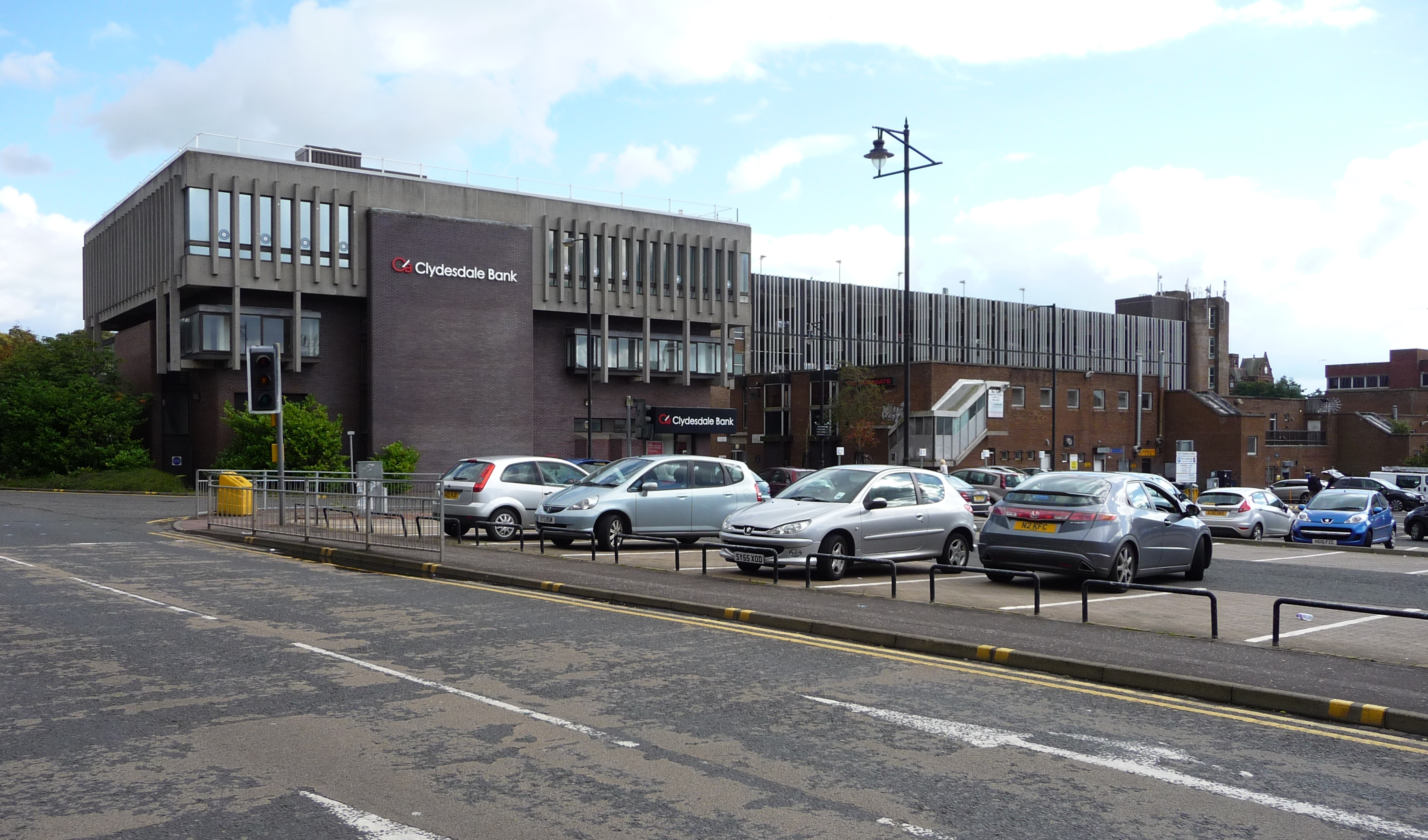 Clydesdale Bank building in Kilmarnock, Scotland